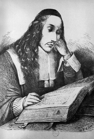 Baruch Spinoza, a famous Jewish philosopher whose family went from Spain to Amsterdam.